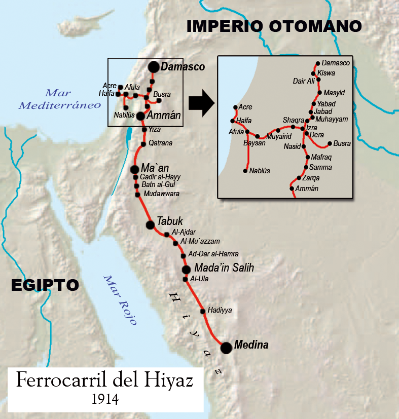 Map of the Hejaz railway (Damascus-Mecca pilgrim route); built at great expense by the Ottoman empire in the early 20th century, but quickly fell into disrepair after the Arab revolt of 1917.